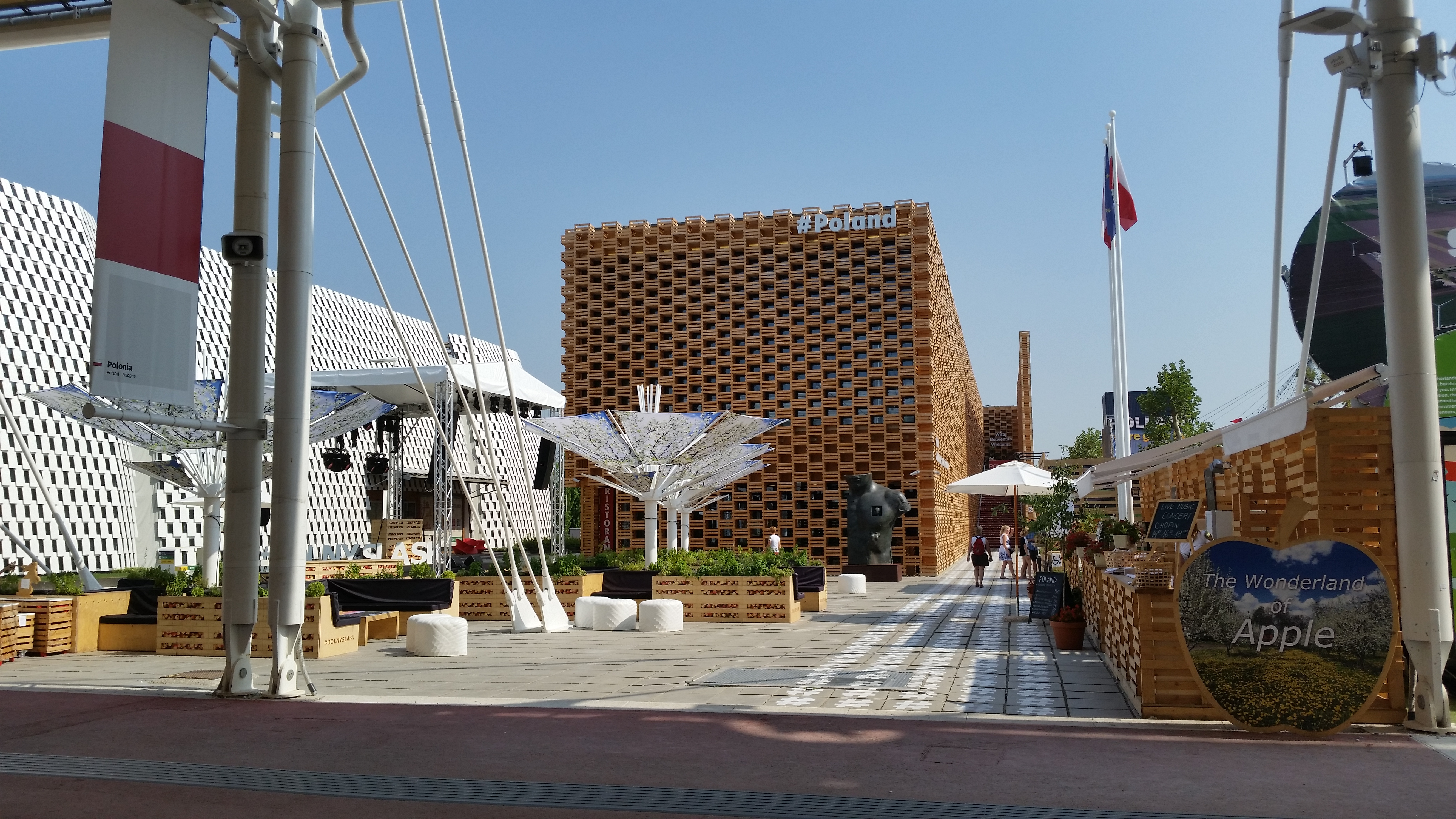 Pavilion of the Expo 2015 located in Milano (Italy)